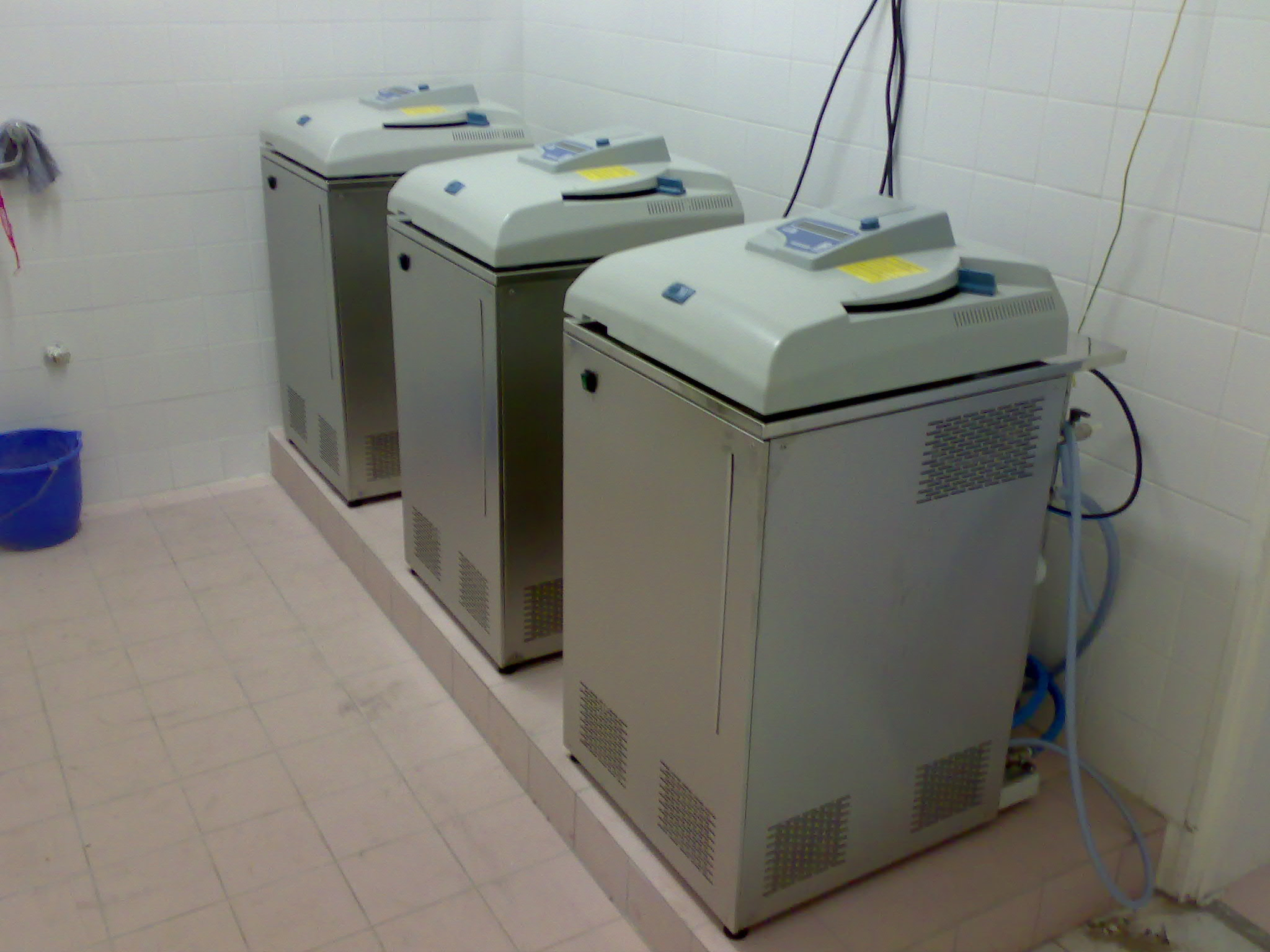 Steam sterilizers (autoclaves)